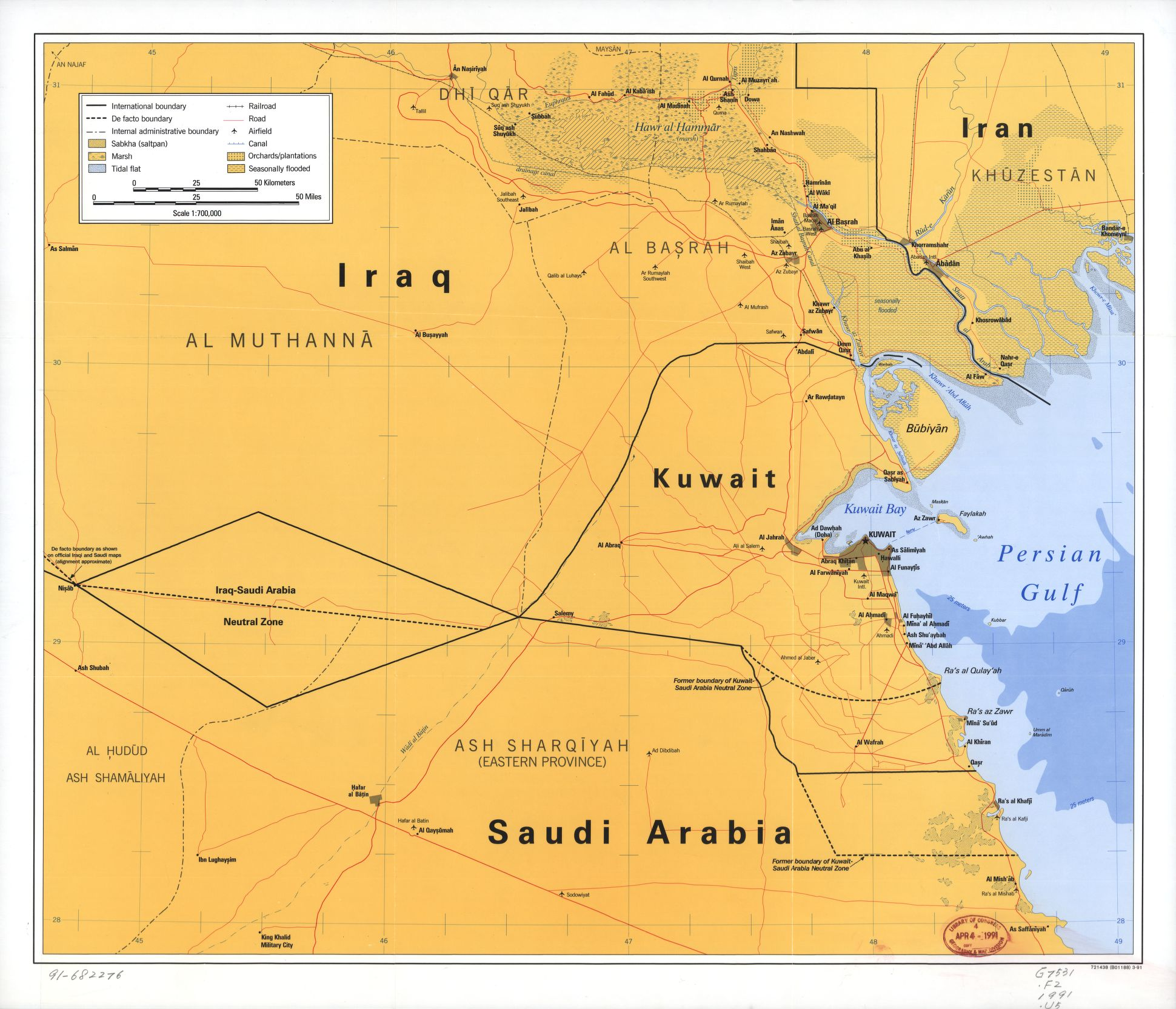 Map showing neutral zones between Saudi Arabia and Iraq and between Saudi Arabia and Kuwait